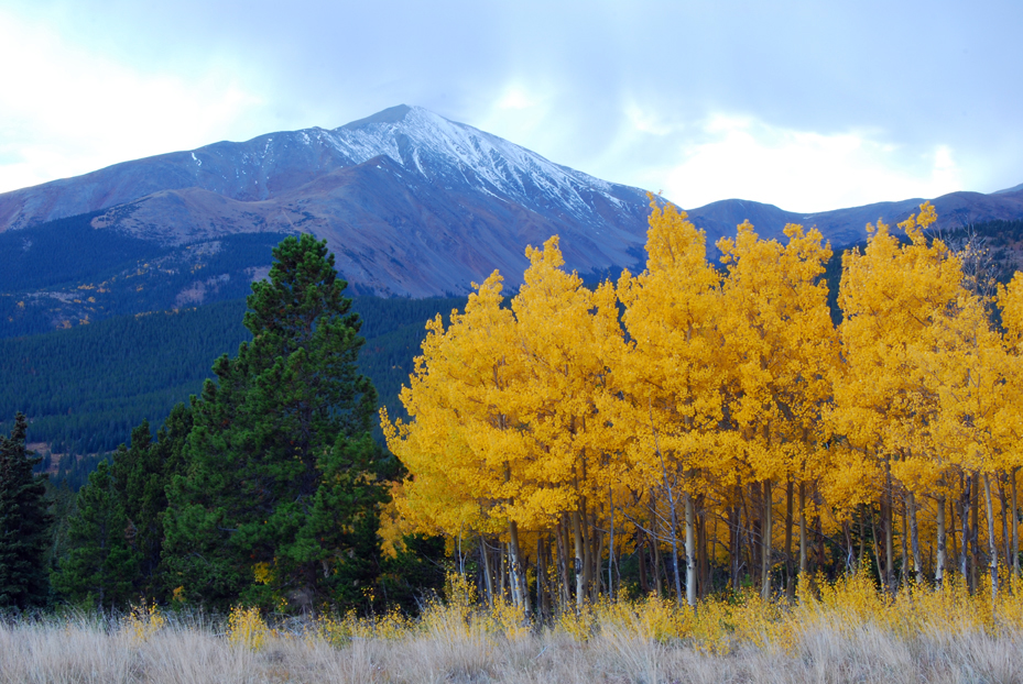 Mount Silverheels is a mountain in Colorado, one of the 637 peaks above 13,000 feet (3,962 m) in elevation in the state. It is located in the Front Range in Park County, Colorado between Breckenridge and Fairplay, within the Pike National Forest. It is the 96th highest peak in Colorado.